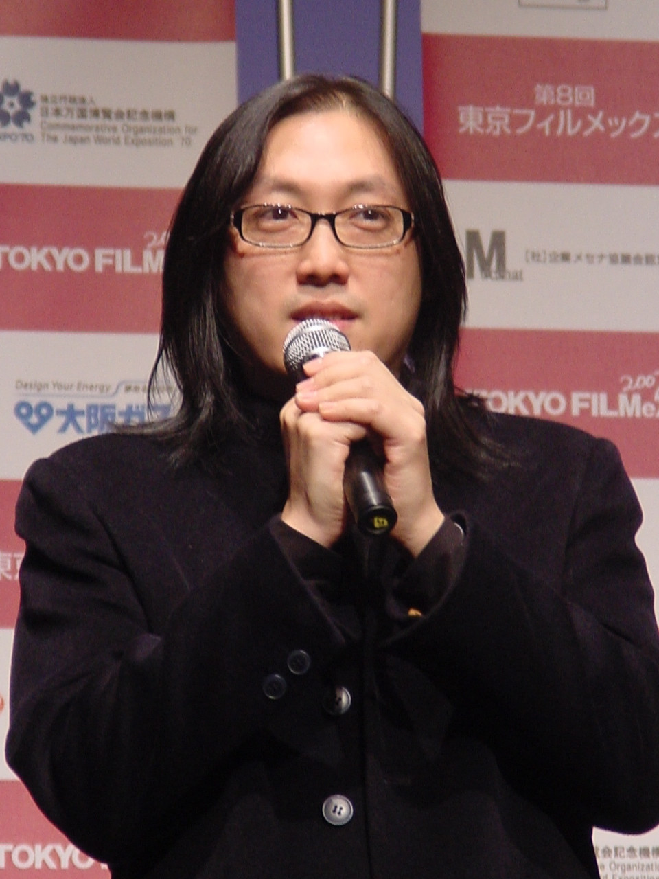 Hong Kong film director Kenneth Bi at the Tokyo Filmex 2007